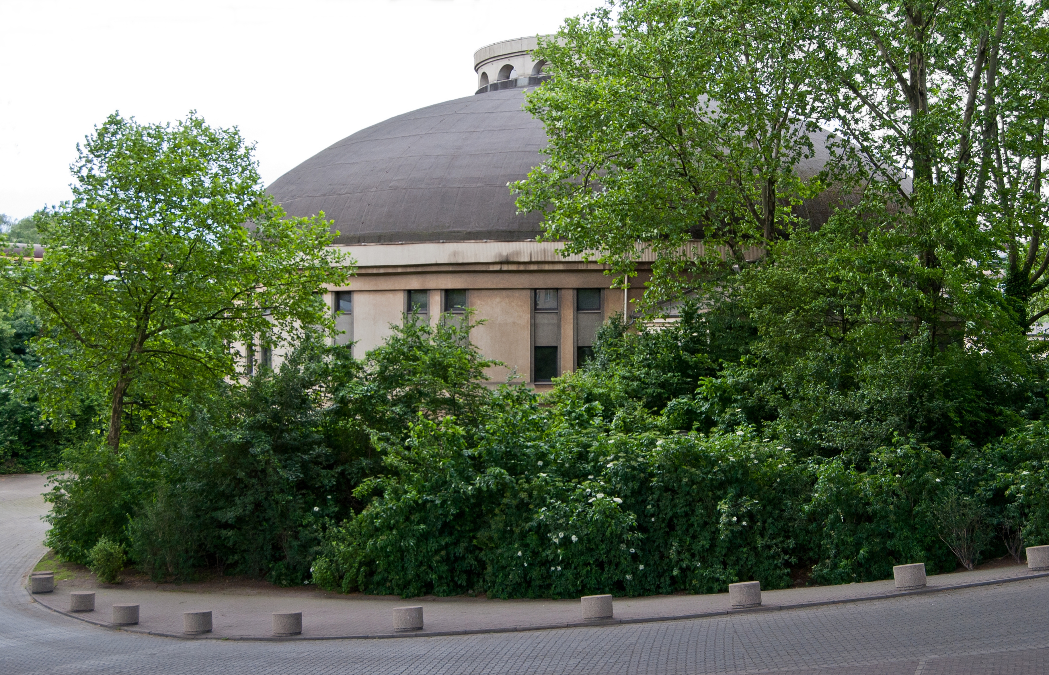 Duisburg (North Rhine-Westphalia, Germany) – district Beeck – pumping station Alte Emscher This image shows a heritage building in Germany, located in the North Rhine-Westphalian city Duisburg (no. 502). This photograph was taken with a Nikon D3000.